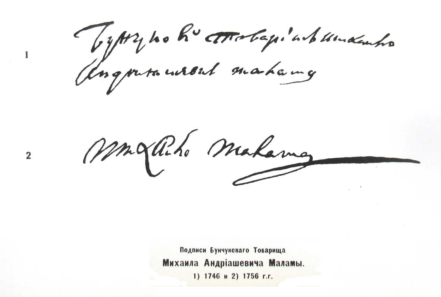 Signature of Mikhail Andriashevich Malama